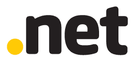 Official logo for .net TLD from Verisign